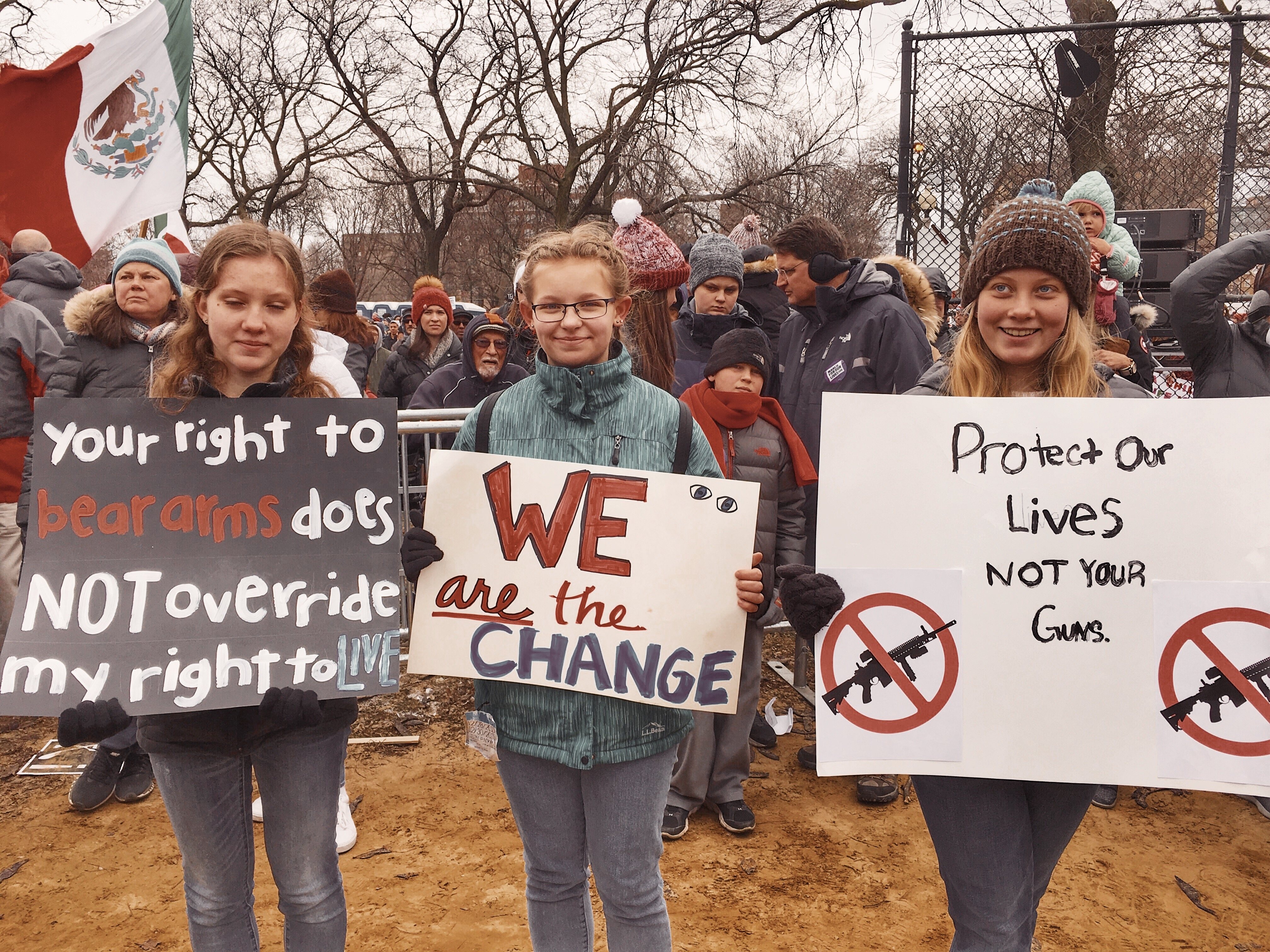 March for Our Lives on 24 March 2018 in Chicago, Illinois